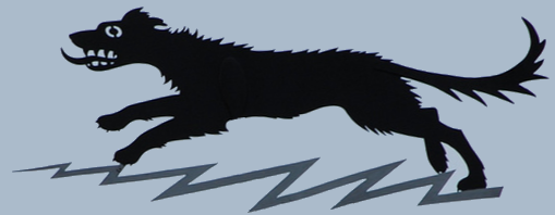 This metal weathervane depicts Black Shuck. It's on top of a pole in the centre of the roundabout a few metres west of Buttercross.